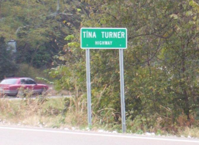 Photo of a roadsign on TN 19 between Brownsville and Nutbush